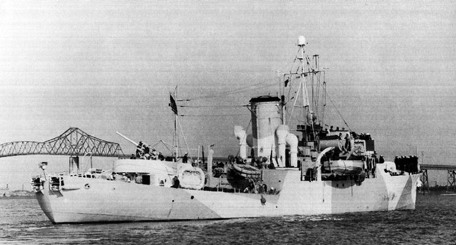 Wearing Measure 16 - Thayer System colors, whose patterns are identical on both sides of the hull. National Archives photo 19-N-66637 from "Naval Camouflage 1914-1945: A Complete Visual Reference", by David Williams